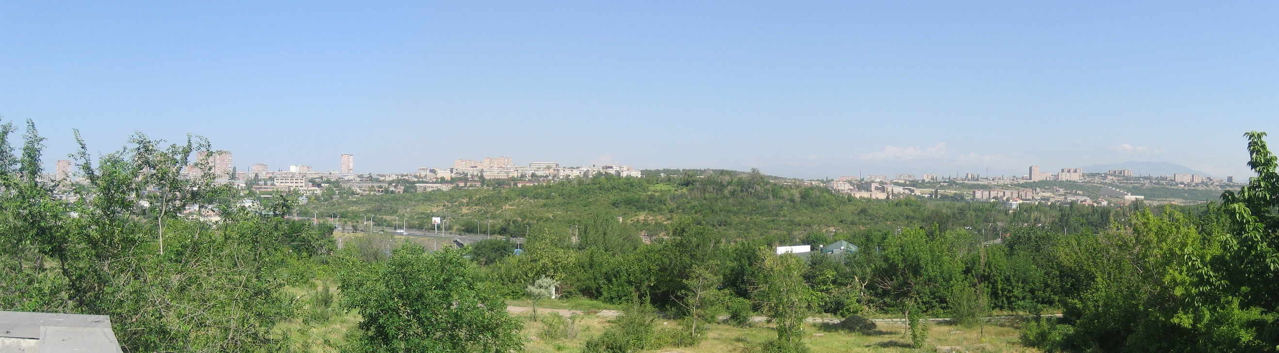 View of the eastern side of Yerevan's Kanakerr-Zeytun district as seen from the Nork-Marash district. Panorama created with Hugin software.